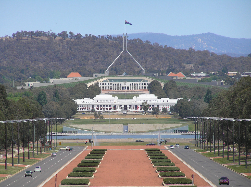 View of Old and New Parliament House Canberra taken from the Australian War Memorial. Photo taken November 2006 by Brenden Ashton.